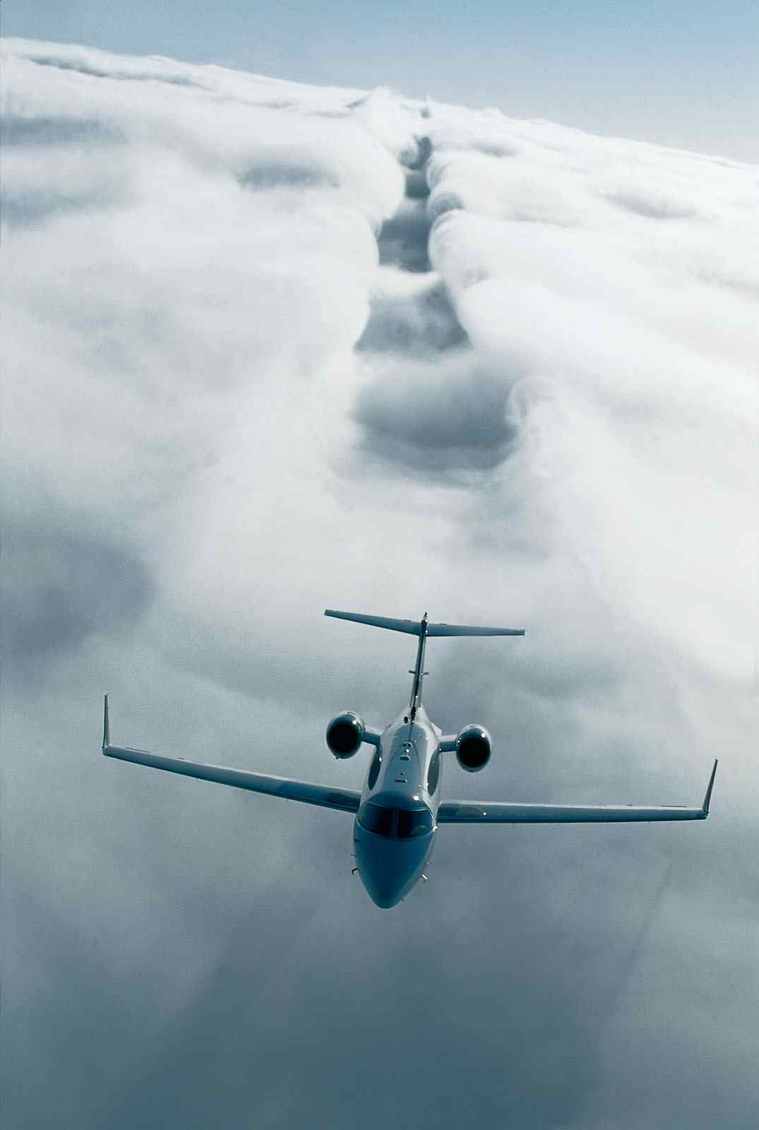 Learjet 45 of the Irish Air Corps in flight.